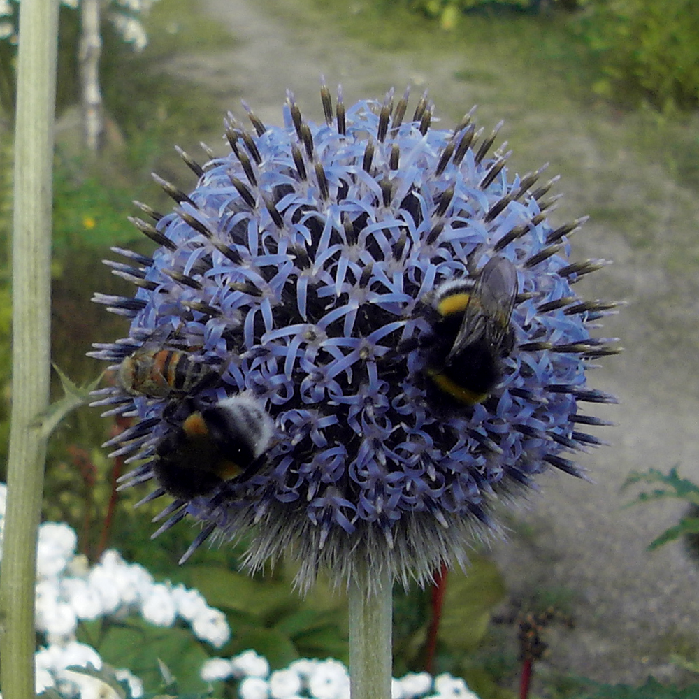 Bees and Flowers, Helsinki 9.8.2017.